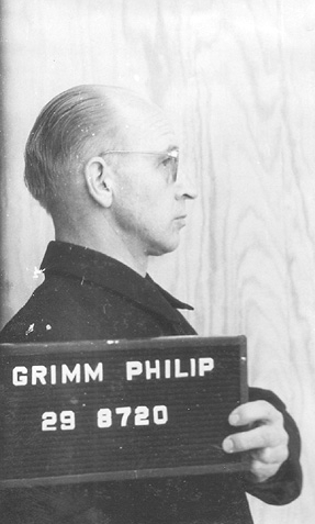 Philipp Grimm, SS-Obersturmführer, Labor Allocation Leader in the concentration camp of Buchenwald. In the Buchenwald Camp Trial (part of the Dachau Trials) he was sentenced to death by hanging (later modified to lifetime imprisonment)